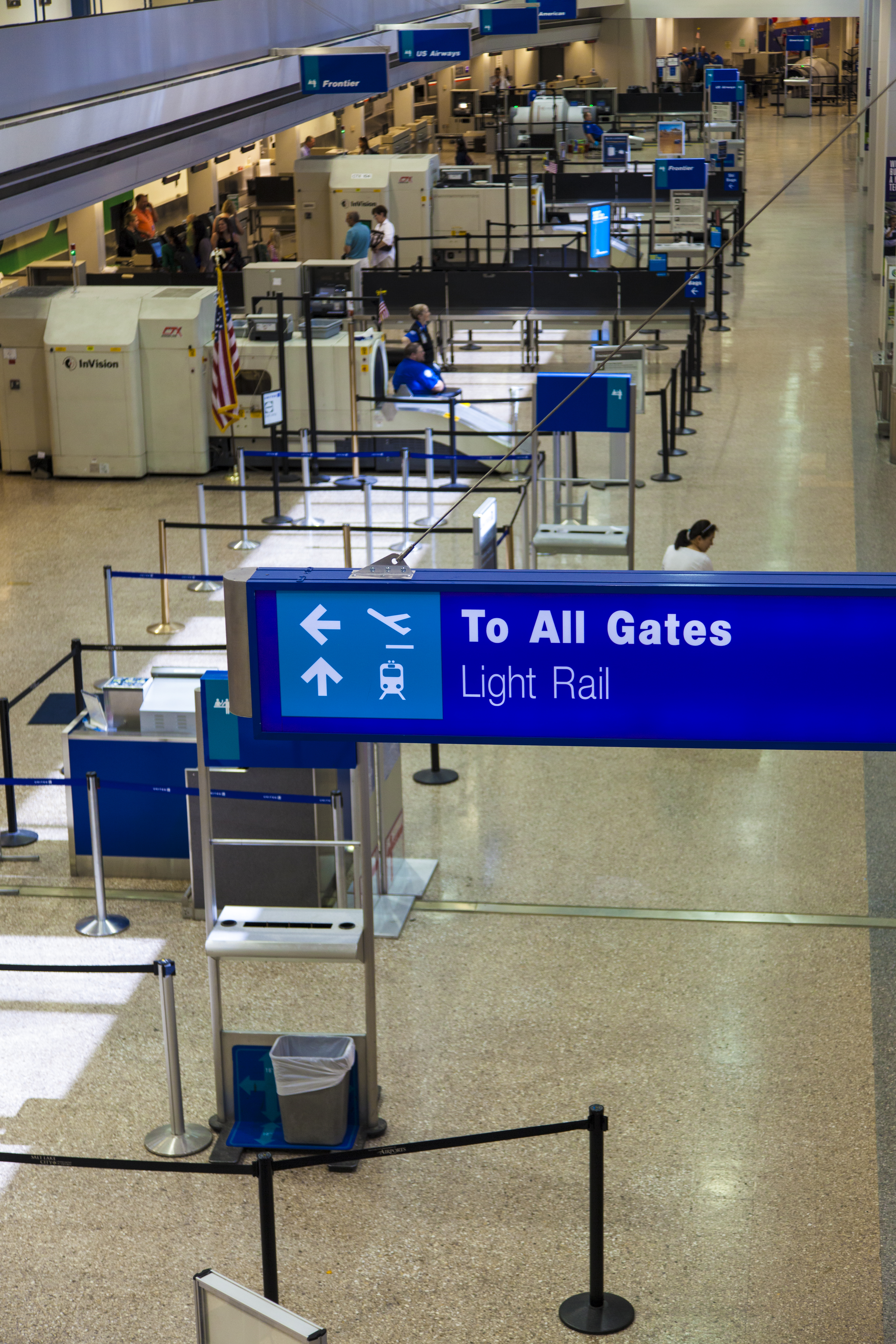 Salt Lake City International Airport Terminal 1 in Salt Lake City, Utah, USA.